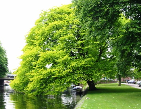 Ulmus glabra 'Lutescens' Photo taken by Ronnie Nijboer, Bonte Hoek kwekerijen.